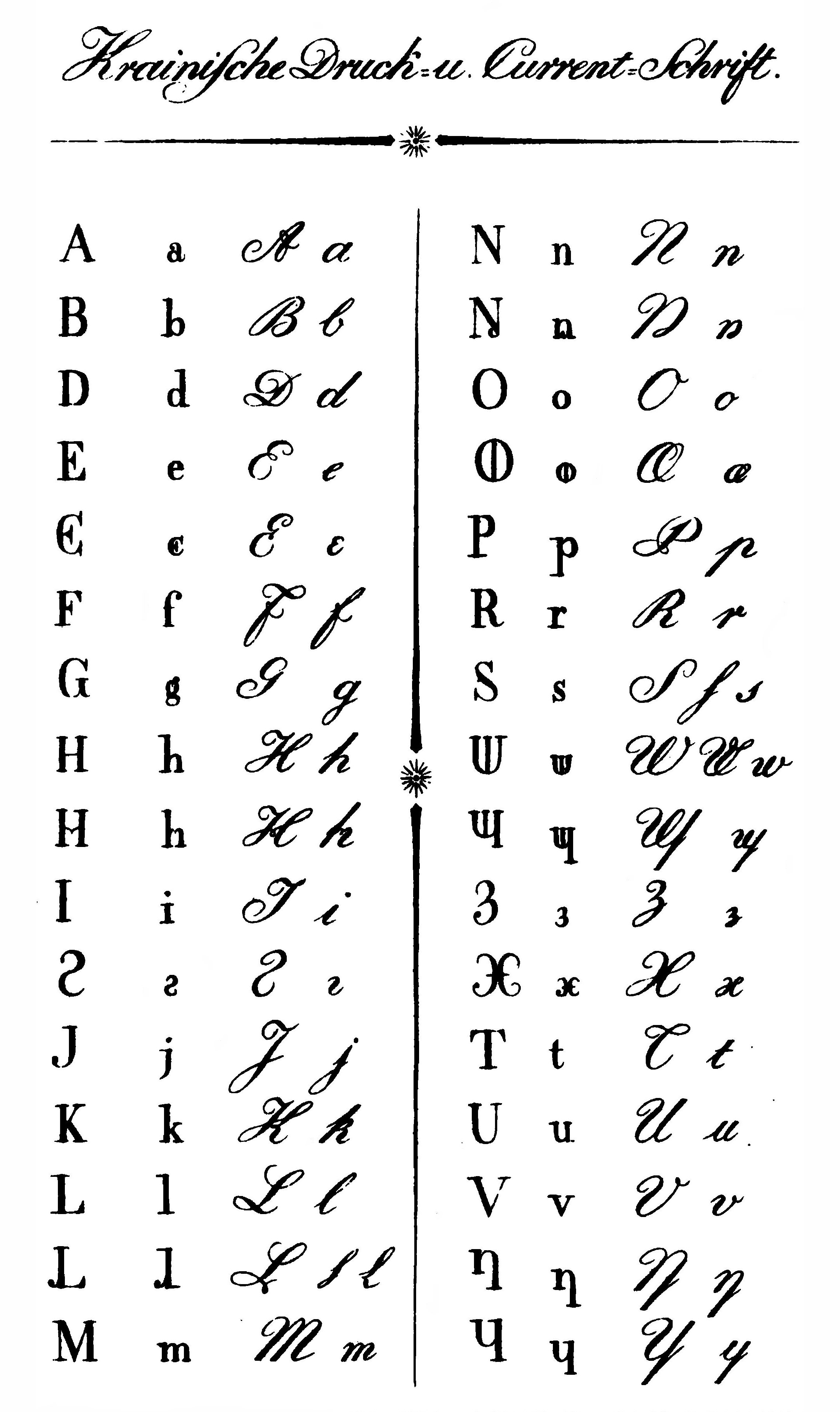 Metelko Alphabet, in Franz Seraph Metelko, Lehrgebäude der slowenischen Sprache im Königreiche Illyrien und in den benachbarten Provinzen, 1825, p. xxxviii